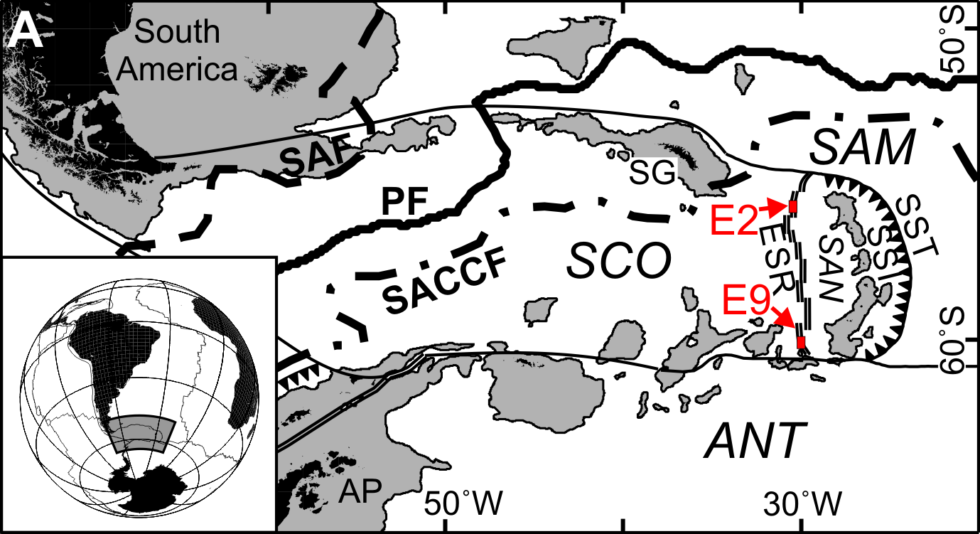 The Scotia Sea showing the East Scotia Ridge (ESR) in relation to the Scotia Plate (SCO), South Sandwich Plate (SAN), South American Plate (SAM), the Antarctic Plate (ANT), the Antarctic Peninsula (AP), and the South Sandwich Trench (SST). Oceanographic features shown include the Polar Front (PF), the Sub-Antarctic Front (SAF), and the southern Antarctic Circumpolar Current Front (SACCF). The sites E2 and E9 are indicated by red arrows.